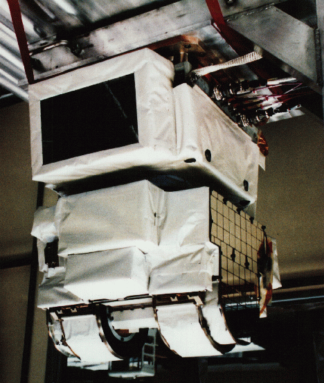 This picture shows the CERES instrument before it was installed on the TRMM satellite. The white fabric protects the instrument from atomic oxygen in the upper parts of our atmosphere. Three detectors rotate within the semi-circular housing to make Earth energy measurements.